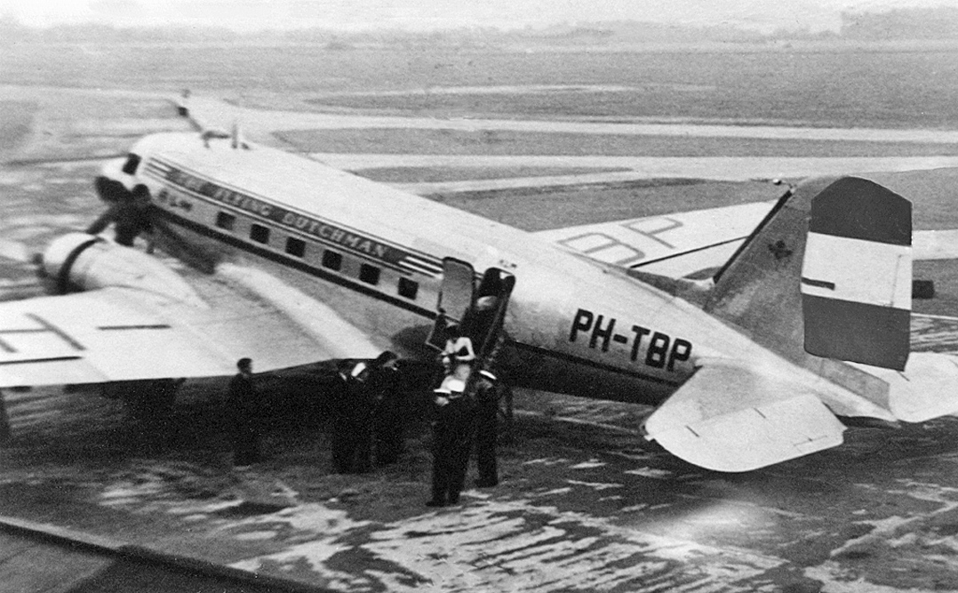 Doaglas DC-3 (C-47A) PH-TBP of KLM at Manchester (Ringway) Airport in 1947